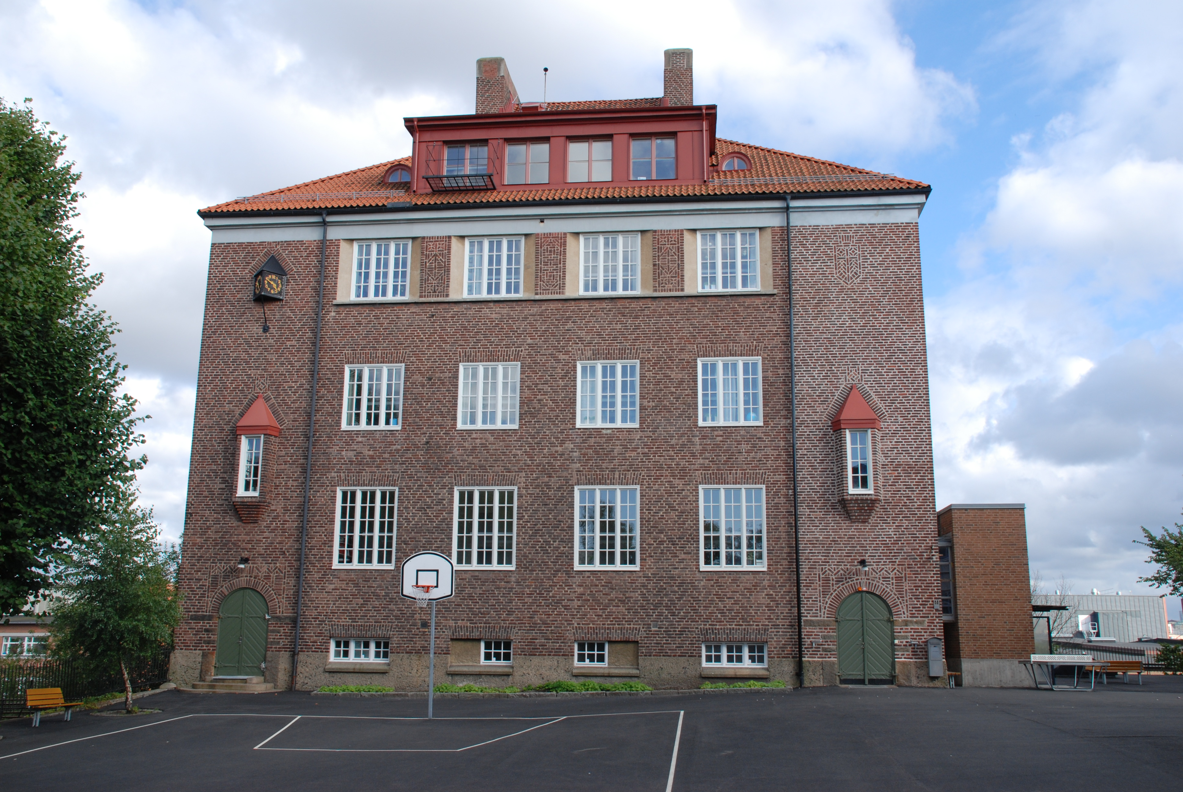 The school Lindholmsskolan on Lindholmen in Göteborg.